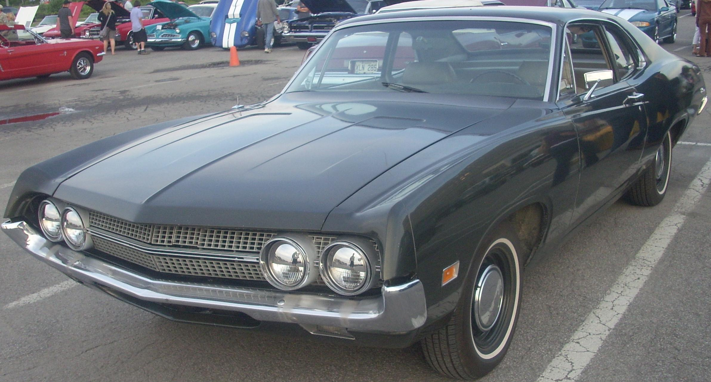 Ford Falcon photographed in Laval, Quebec, Canada at Les chauds vendredis 2010.